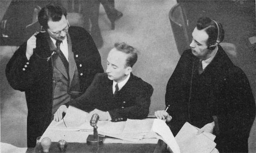 Defense lawyers and prosecution at the Nuremberg Trial IX (Einsatzgruppen Trial / Einsatzgruppen-Prozess). From left to right: Friedrich Bergold (attorney for defendant Ernst Biberstein), Benjamin B. Ferencz (chief prosecutor), and Rudolf Aschenauer (attorney for defendant Otto Ohlendorf). This photograph was taken by US Army photographers on behalf of the Office of Chief of Counsel for War Crimes (OCCWC) during the trial.